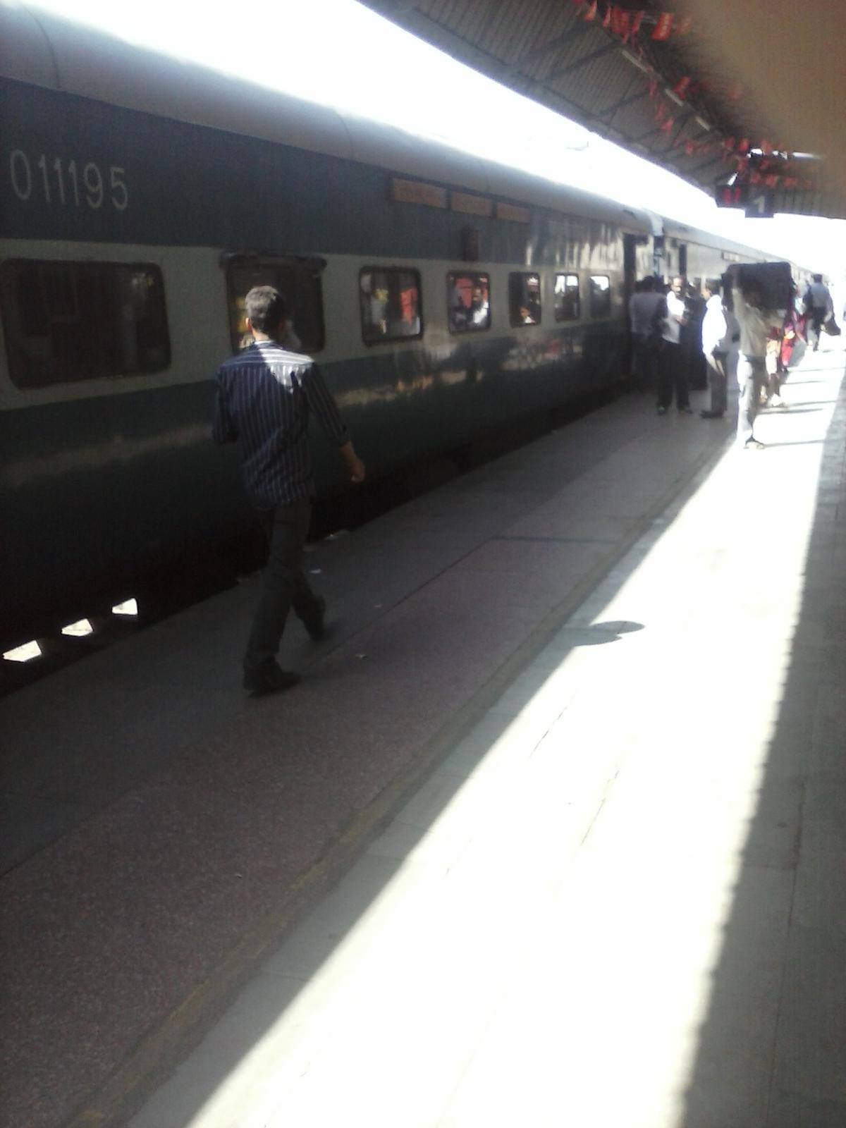 Indore bond Malwa Express standing at Ludhiana Junction